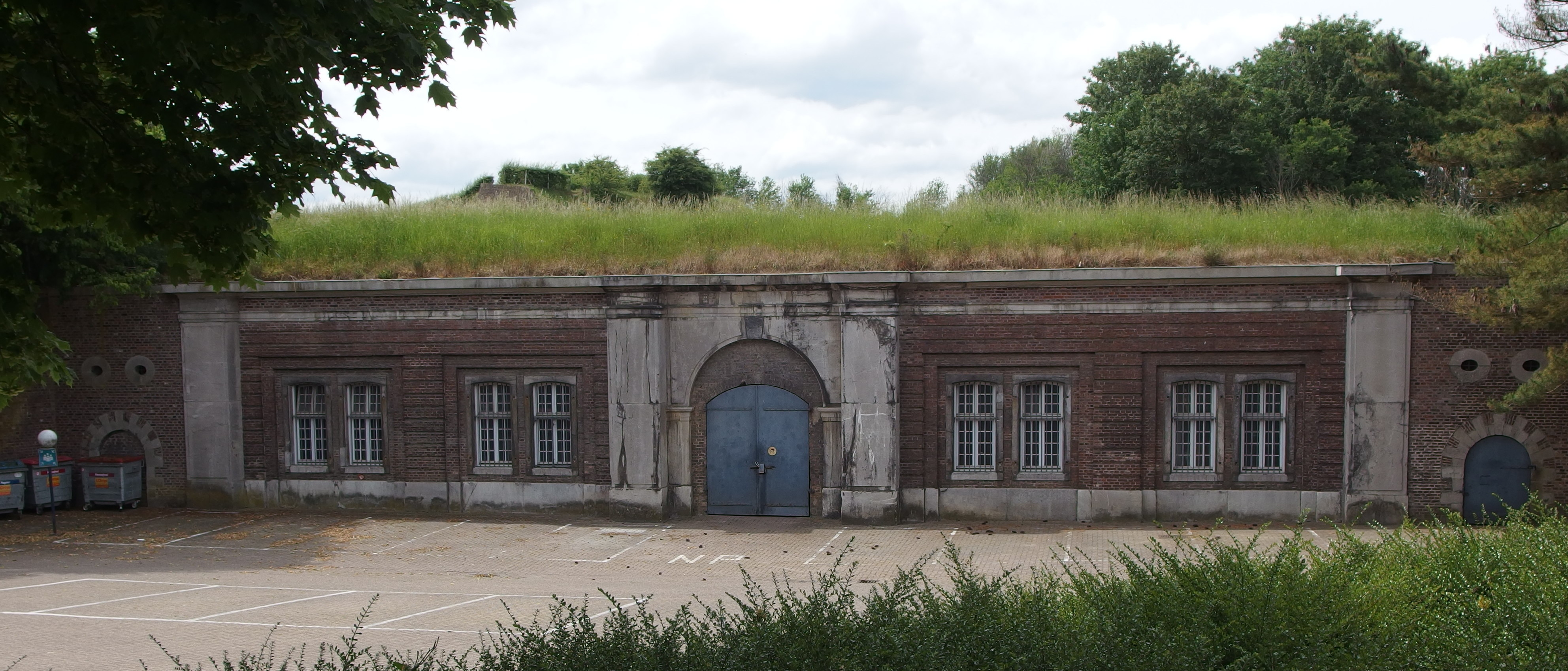 20140525 in Maastricht at Hoge Fronten (Linie van Dumoulin)